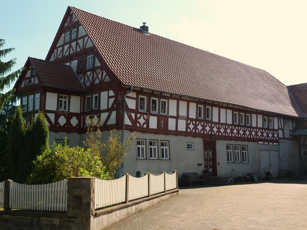 Edelhof in Crainfeld (Hesse, Germany), former residential building of the Oberschultheiss of the Gericht Crainfeld (county) in historical Hesse-Darmstadt, built in 1685.